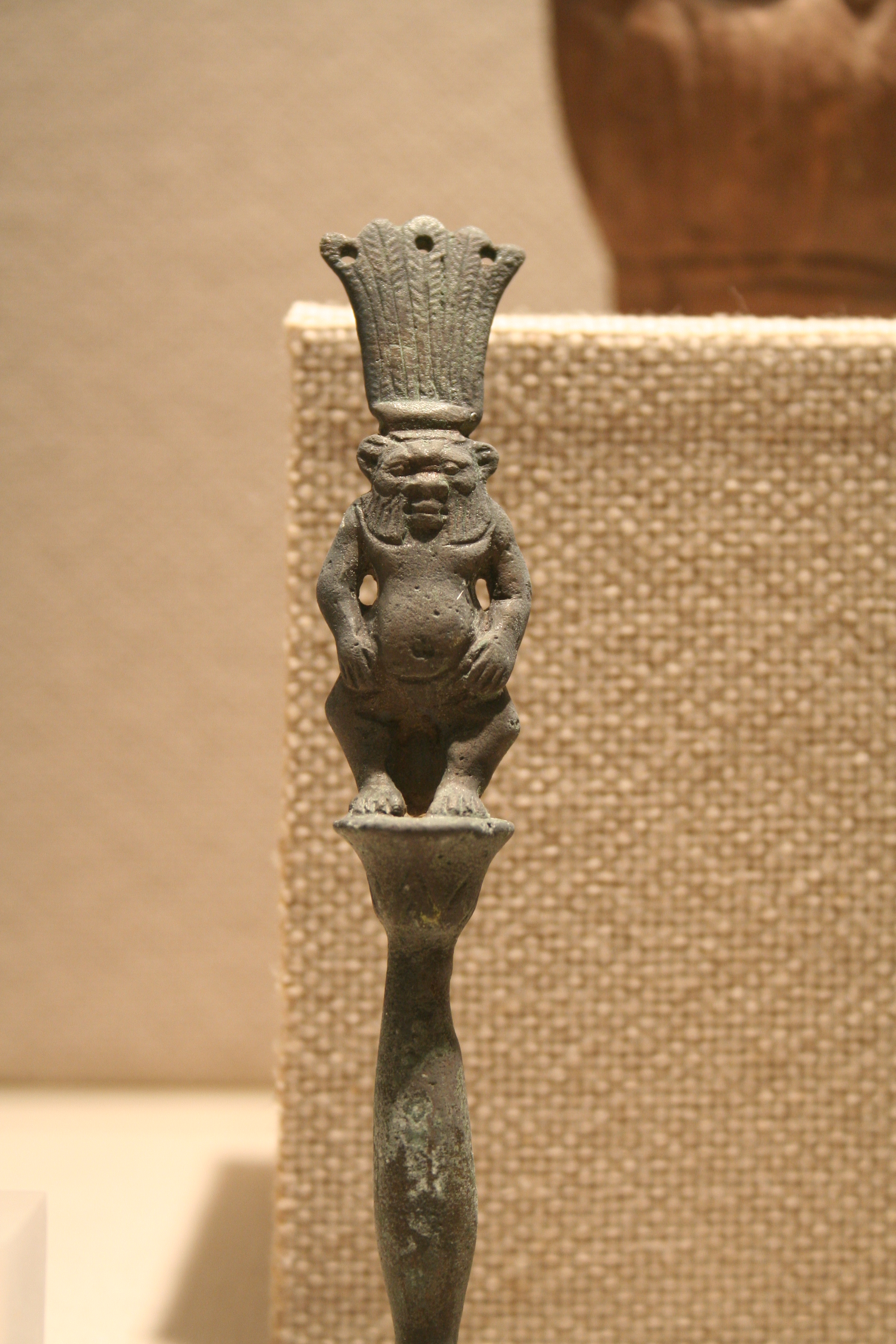 Figurine of Bes